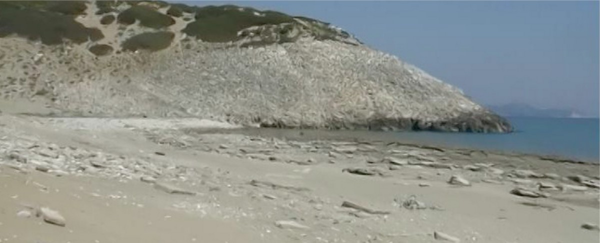 The beach of Aele, where pirates stormed.